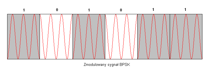 BPSK signal